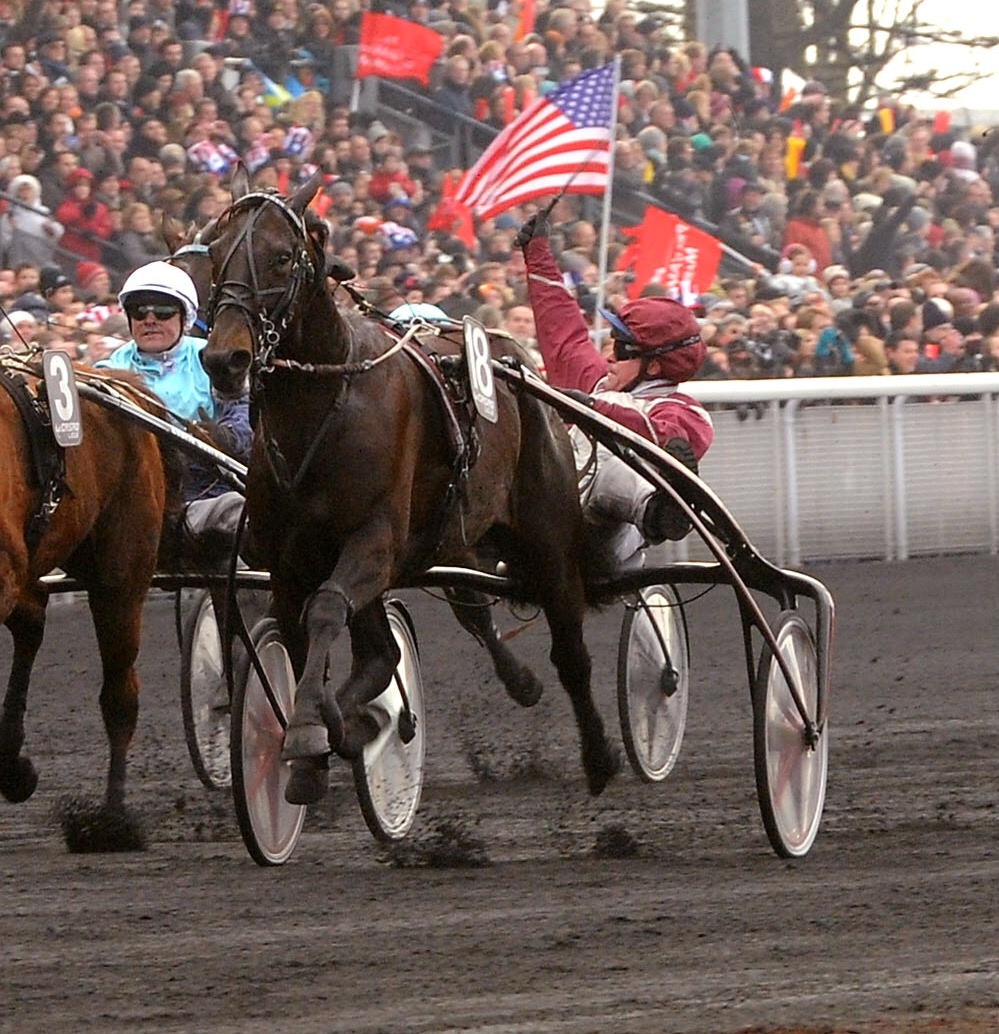 Ready Cash wins Prix d'Amerique 2012.